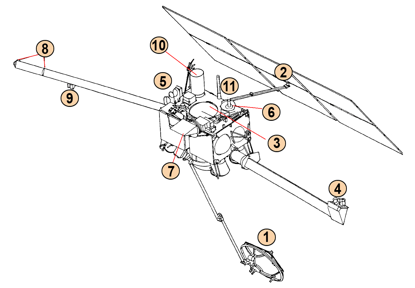 Mars Observer spacecraft diagram. without labels